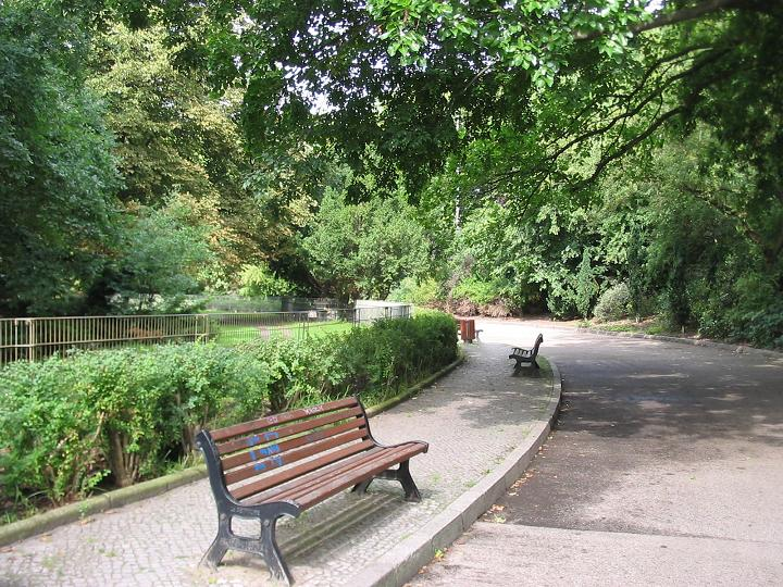 Heinrich-von-Kleist-Park in Berlin-Schöneberg.